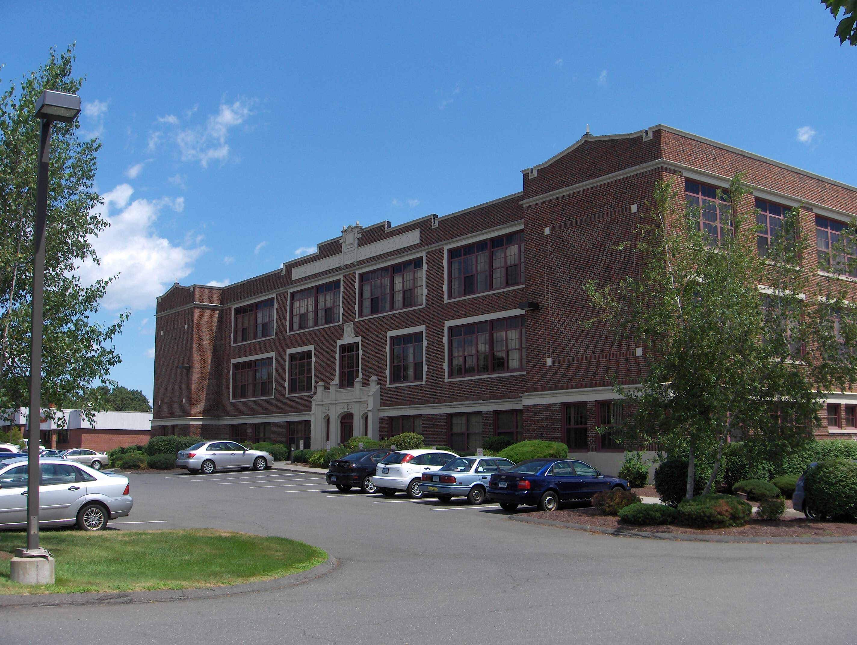 Building used as Plainville High School (located on East Street)bettwen ~1920 and ~1950, then used as Junior High until ~1990's, now office building